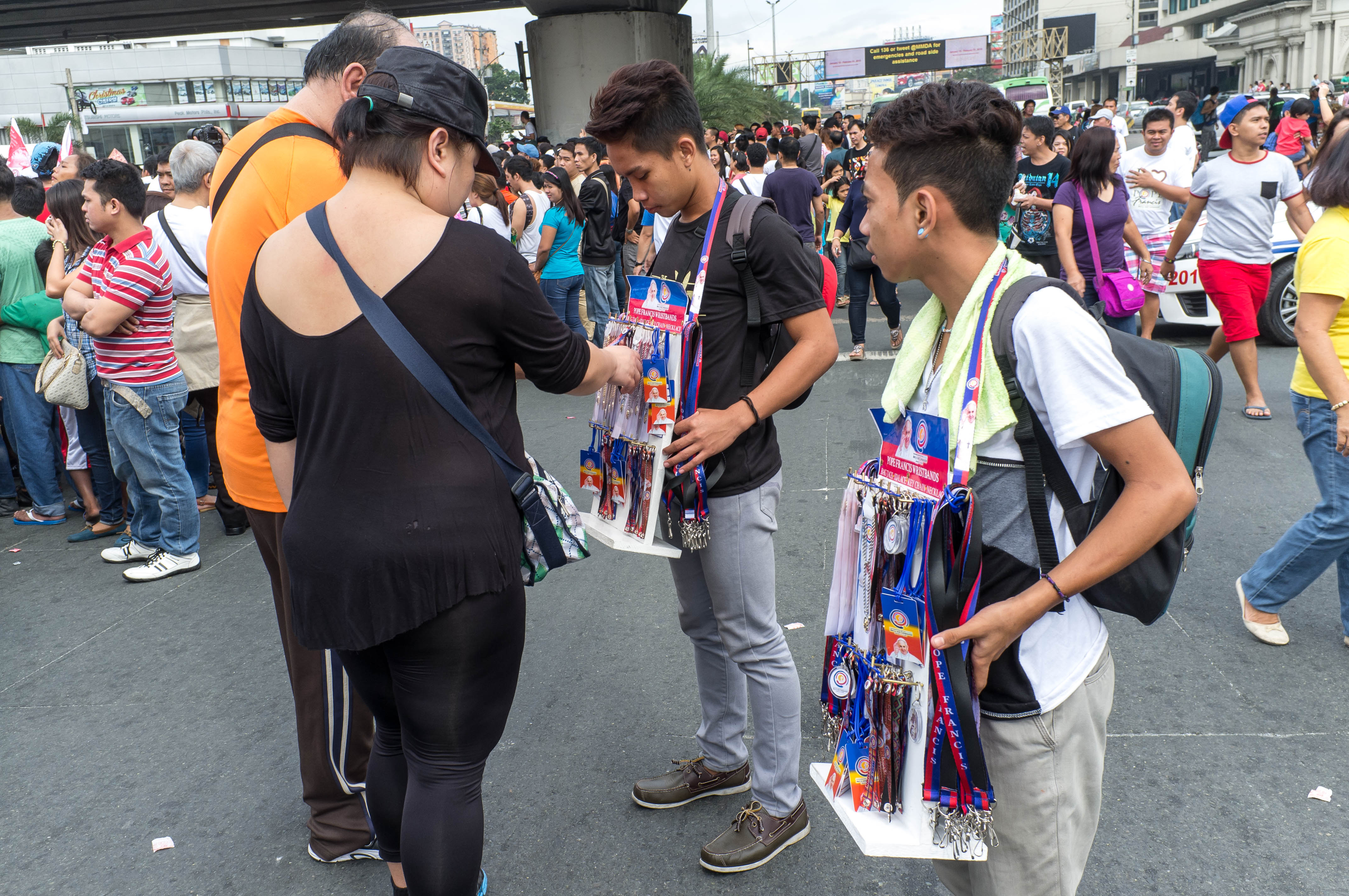 Two vendors selling Pope Francis-related memorabilia and souvenir during Pope Francis' 2015 papal visit to the Philippines; Metro Manila.